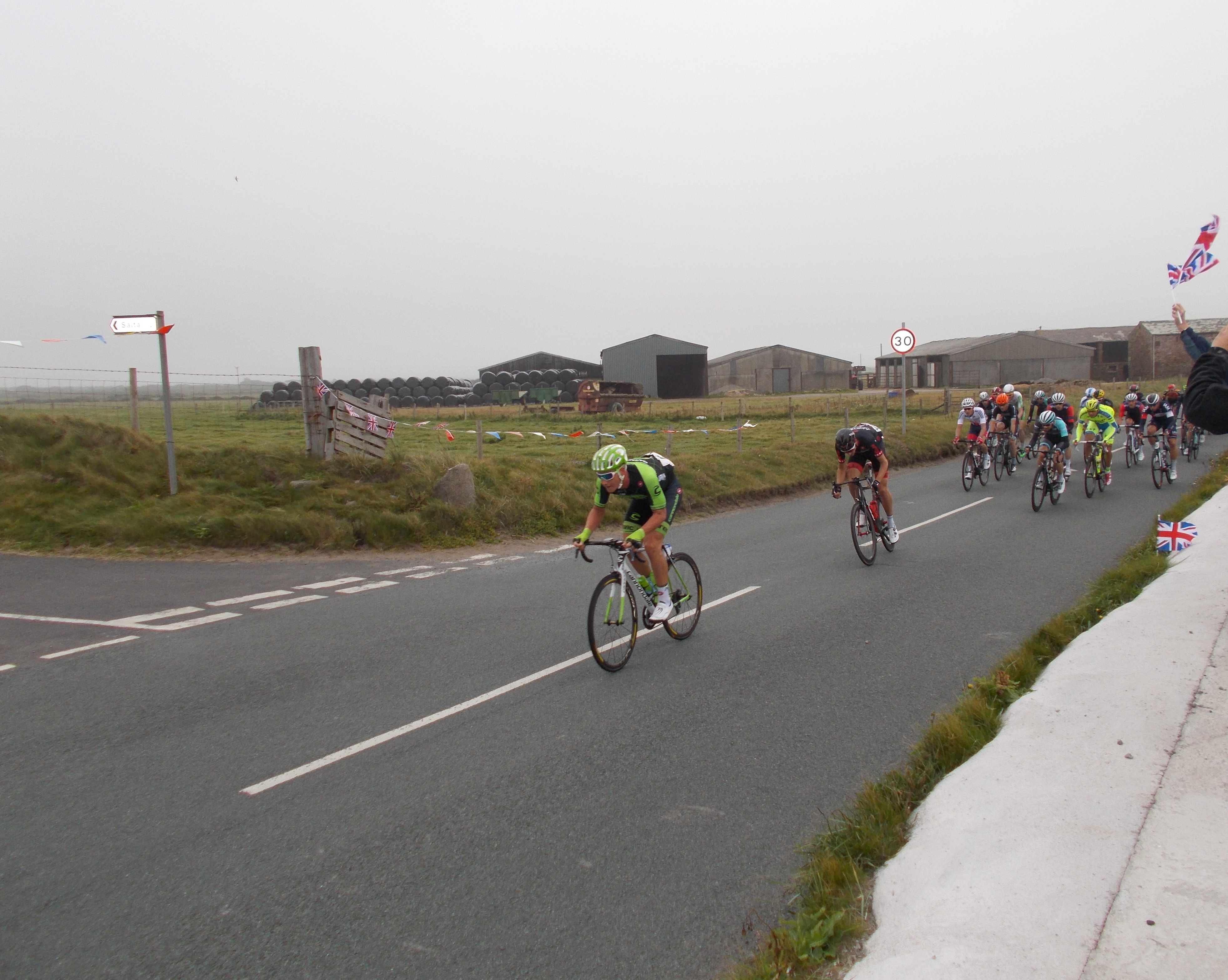 The tour of Britain riders race along the B5300 coast road in Dubmilll, Cumbria, passing the Salta road end.